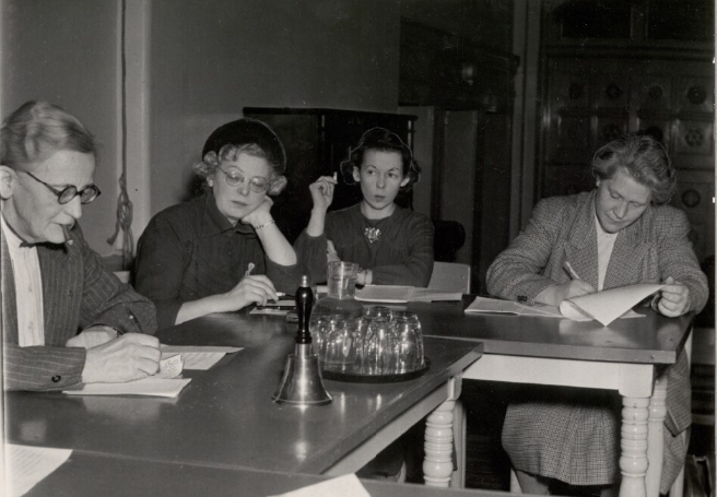 Cropped version of Photograph of Anna Westergaard, Nina Andersen, Clara Munck og Inge Merete Nordentoft in a discussion on "Een verden" in Studiestræde 36-40, Grundtvigs Hus, Copenhagen, Denmark